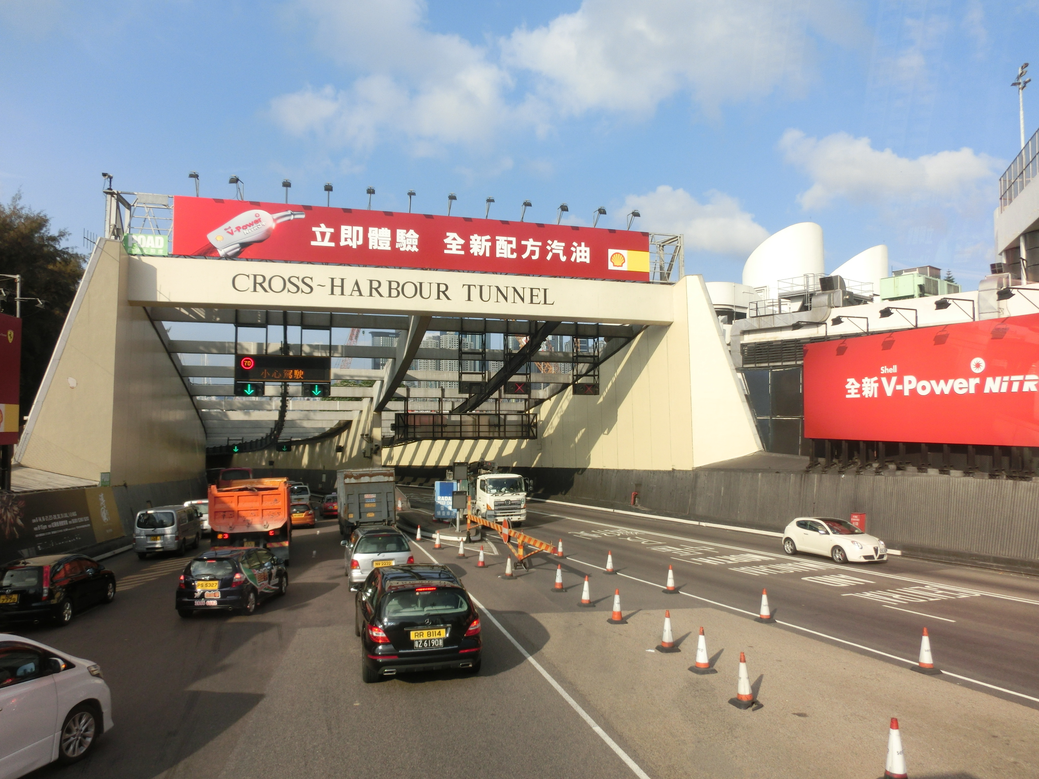 香港海底隧道, Cross-Harbour Tunnel, Causeway Bay, Hong Kong